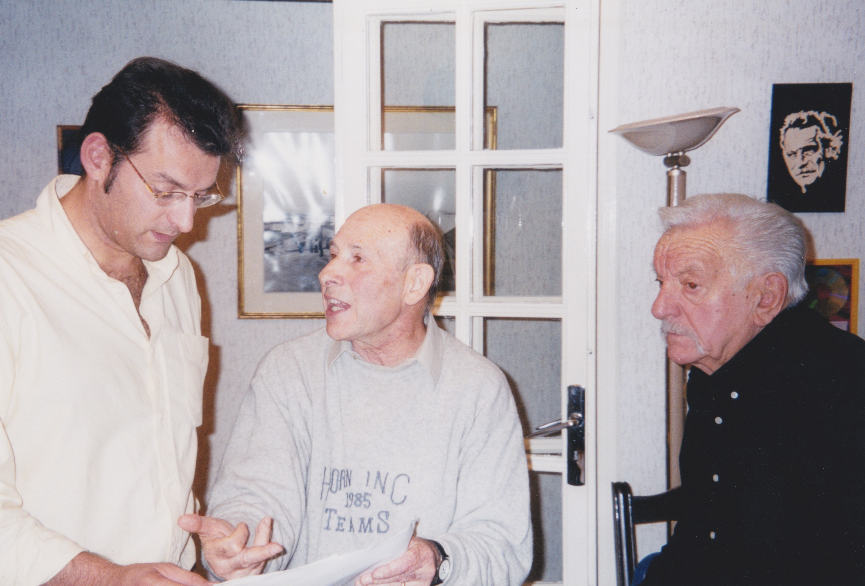 G. Setaro con Georges e Bruno Granier, zio e nipote di Brassens